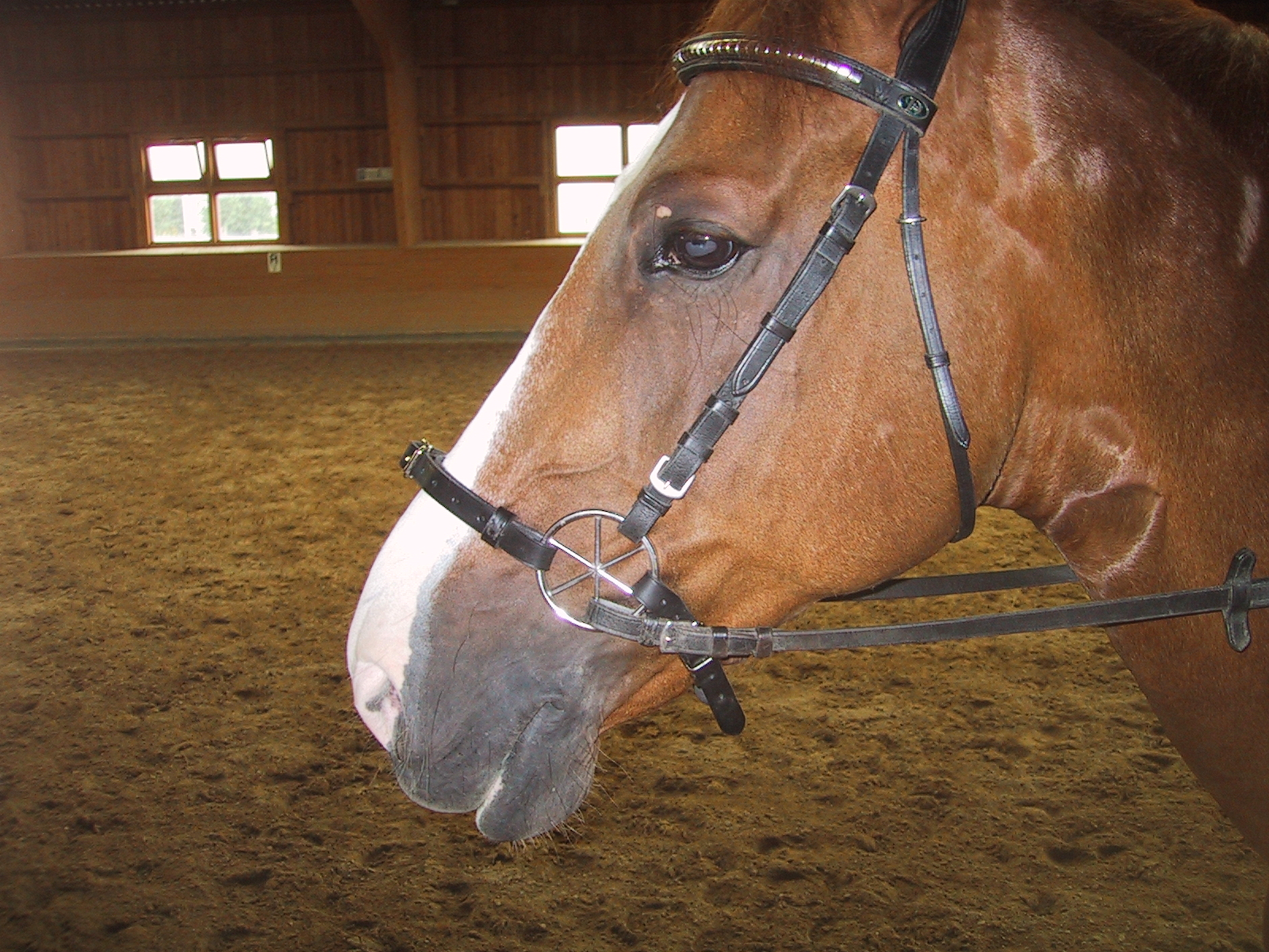 LG Bridle